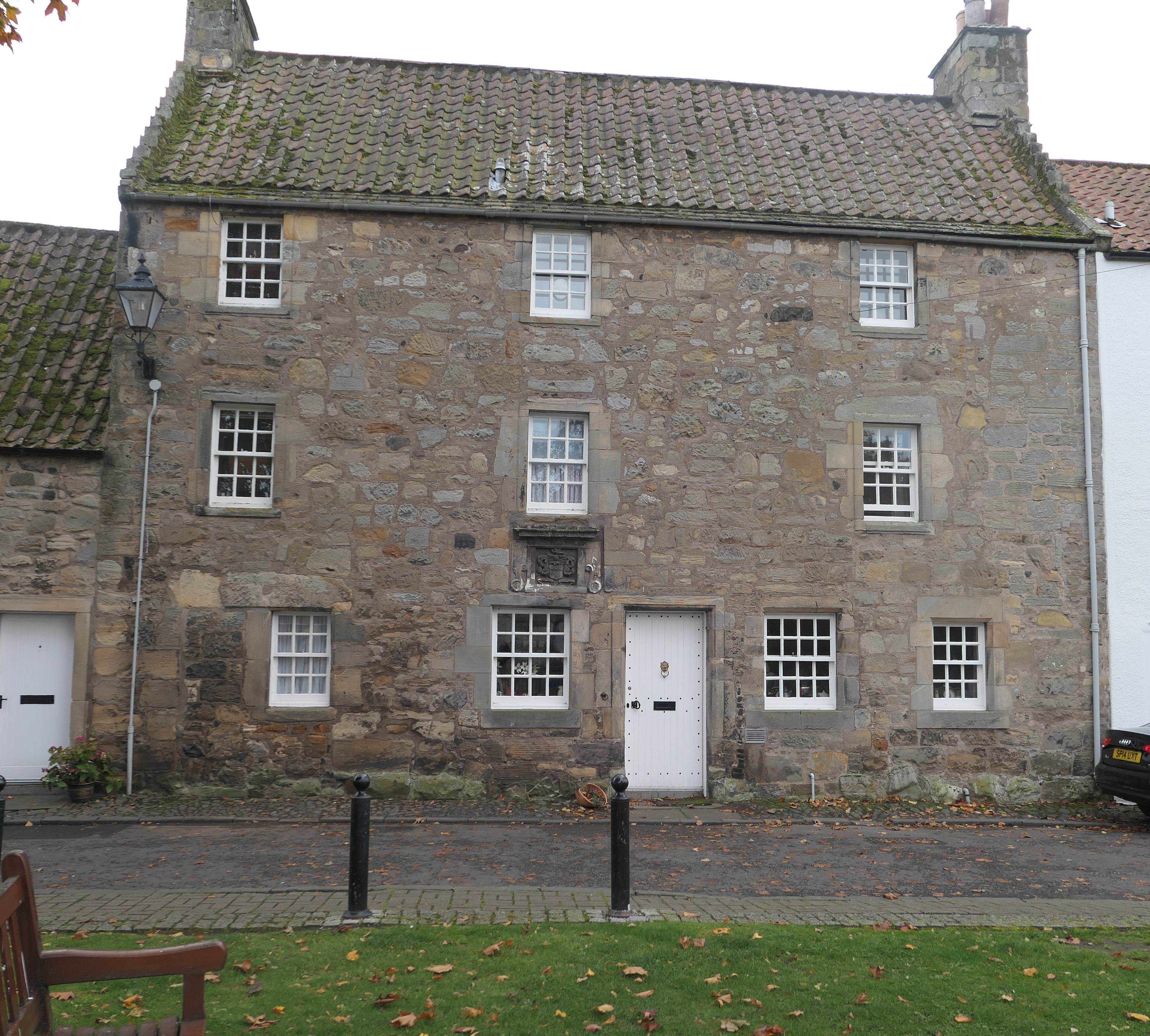 A three-storey house in Brunton Street, in the centre of Falkland. Previously the home of the hereditary falconers to the Kings of Scotland.